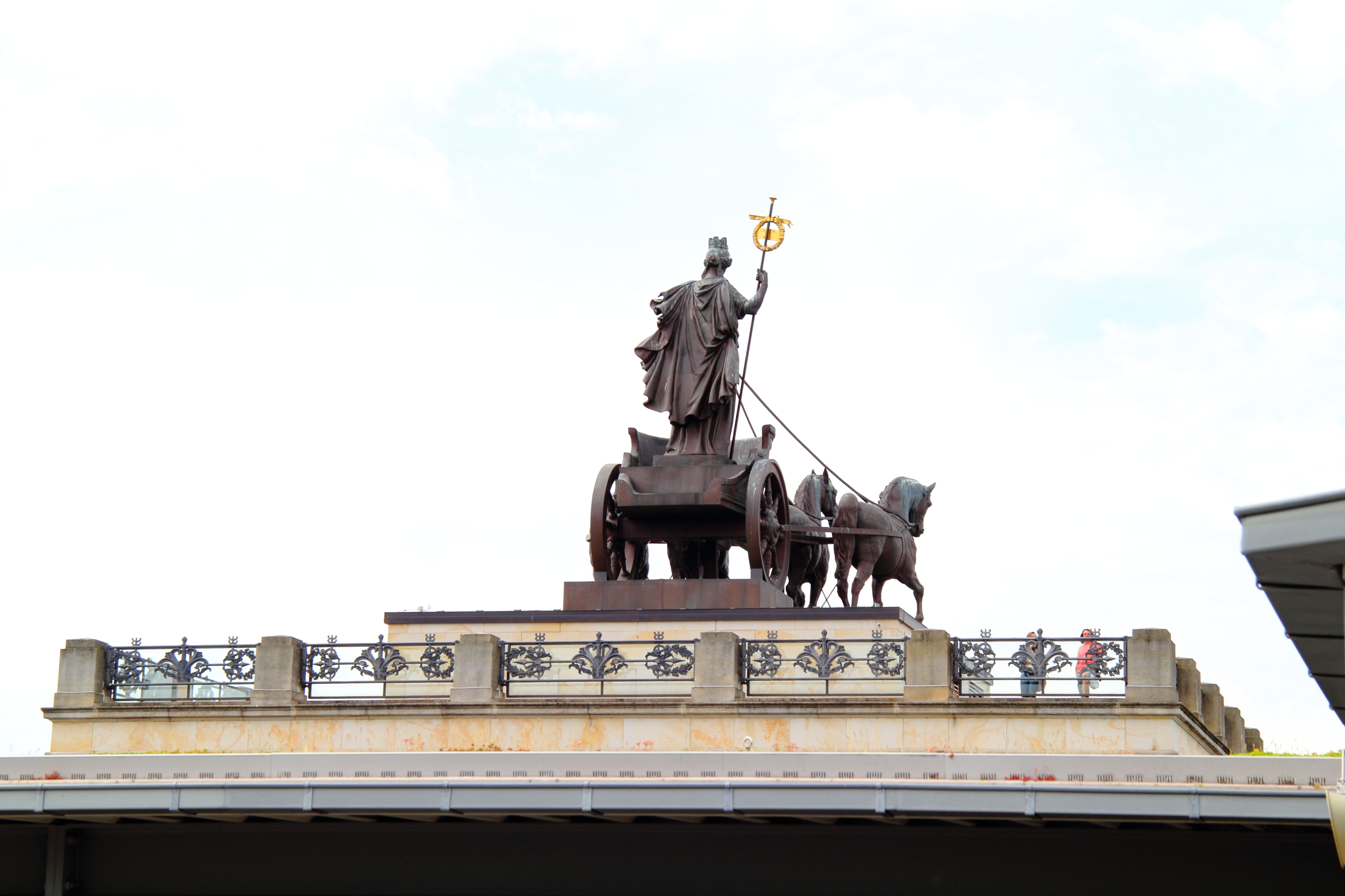 Braunschweig: statue of Brunswick Quadriga on top of en: Brunswick Palace